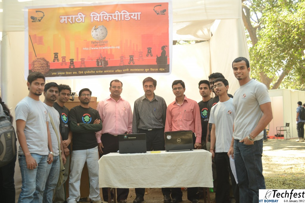 Marathi_Wikipedia_Stall_At_Techfest_IIT_Bombay